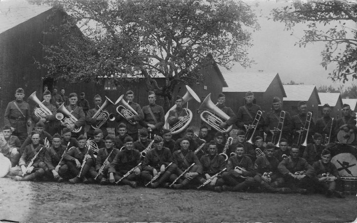 142nd Field Artillery Regiment Band in Europe, 1918